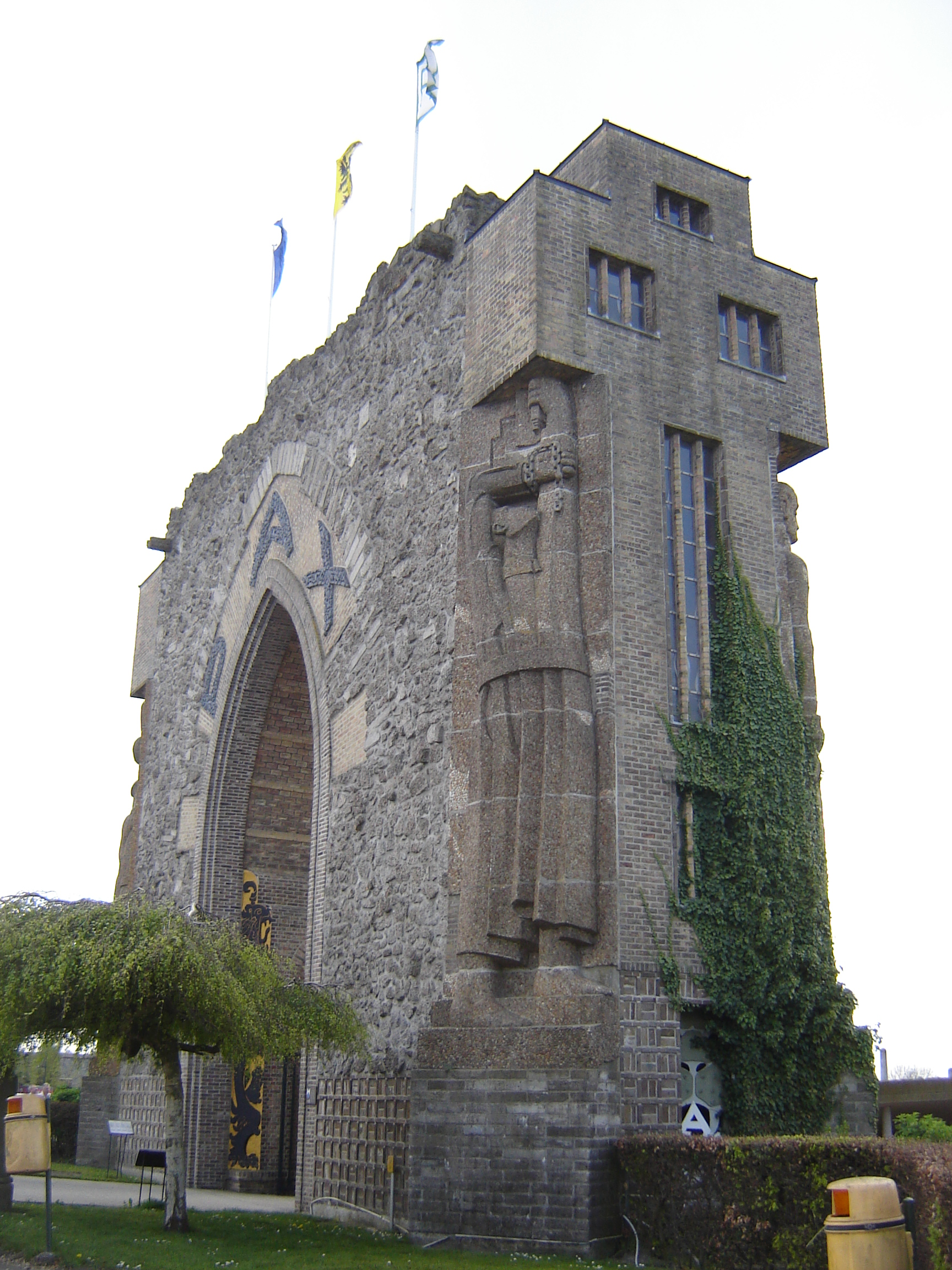 Paxpoort gate in front of the IJzertoren in Kaaskerke. Kaaskerke, Diksmuide, West Flanders, Belgium